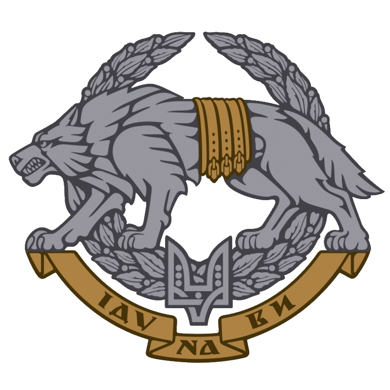 Emblem of the Ukrainian special forces.